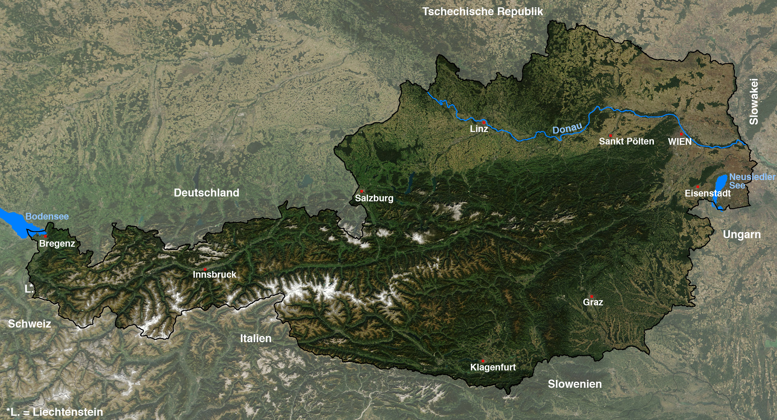 Satellite image of Austria with provincial capitals and other annotations